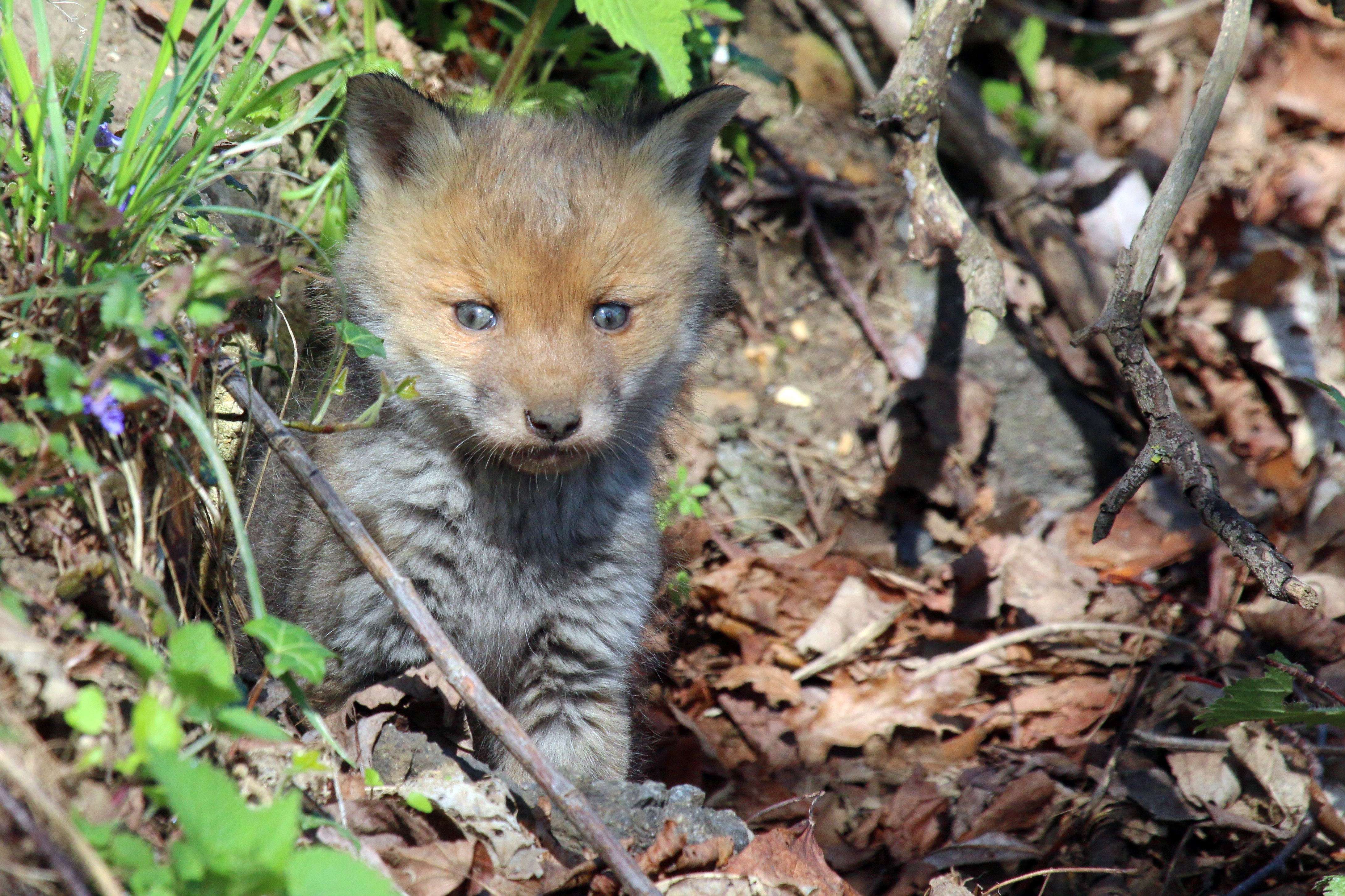 Red fox kit (Vulpes vulpes) emerging from a burrow, North Abingdon, Oxfordshire